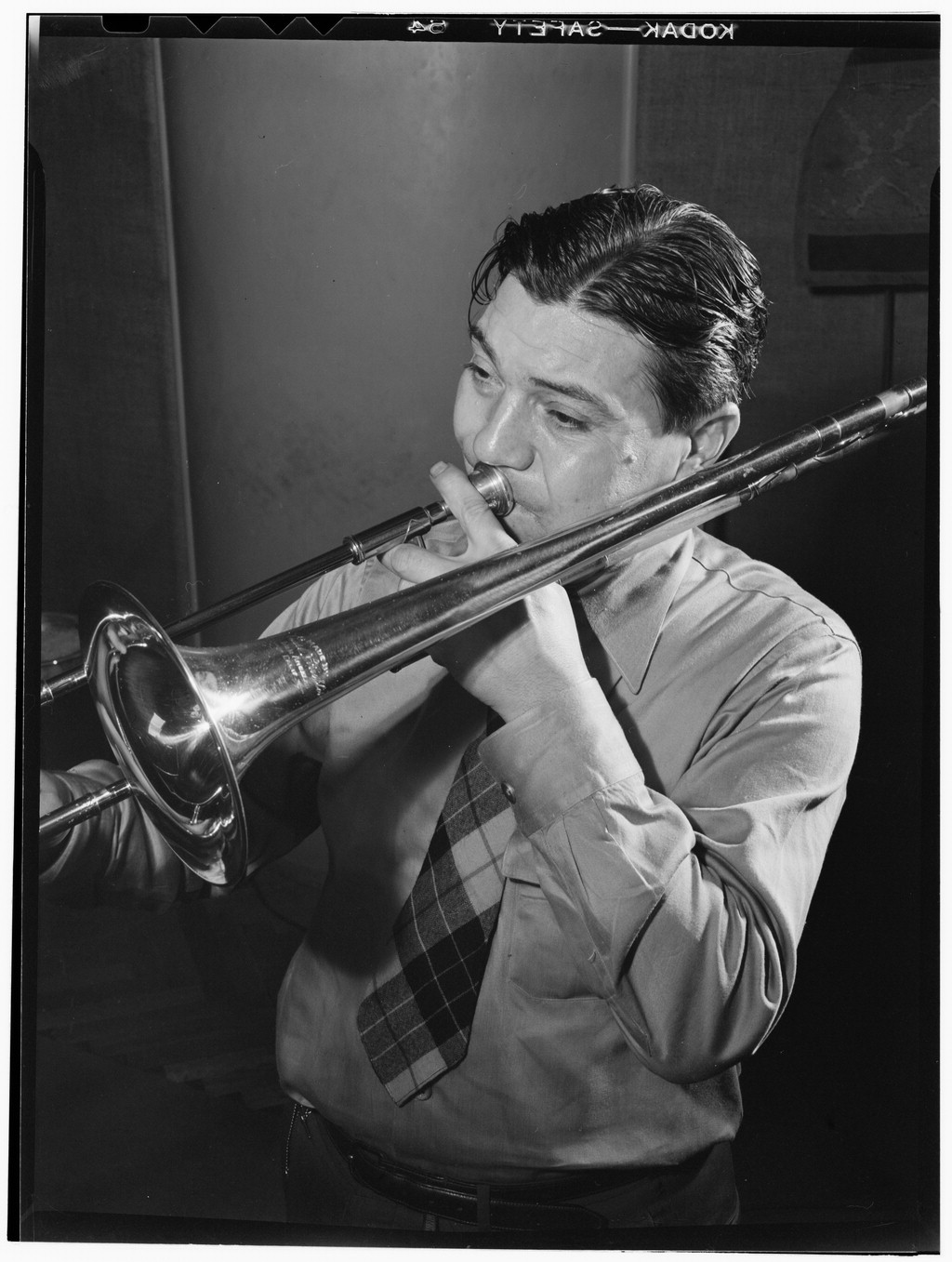 Jack Teagarden